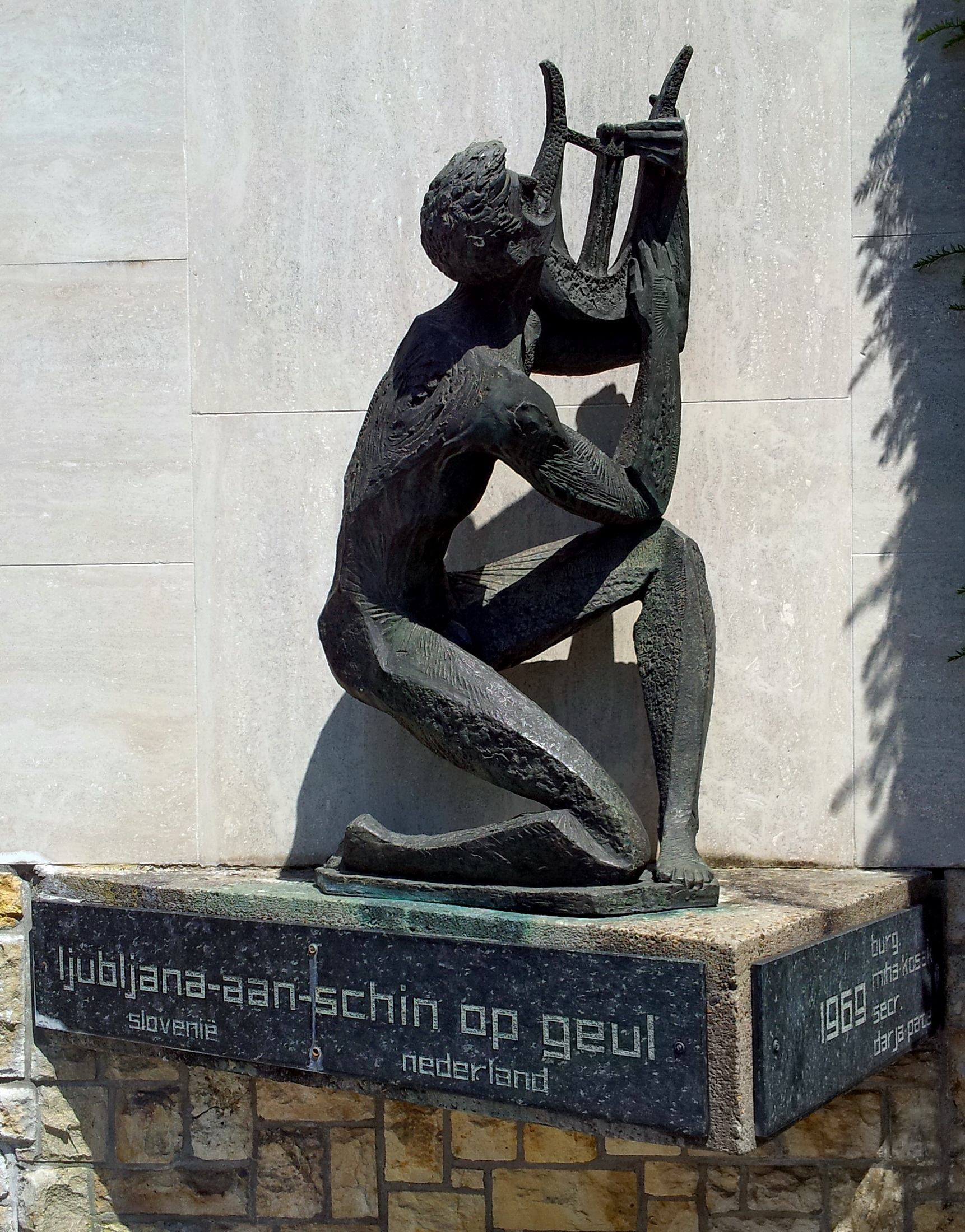 Statue of Orpheus playing the harp by Slovenian sculptor Stojan Batič (1925-2015) in front of the parish church of Schin op Geul, South Limburg, the Netherlands. The sculpture was a present in 1969 of the Ljubljana police choir and orchestra to the Schin op Geul choir Inter Nos, as a token of mutual friendship. A similar statue was placed in Ljubljana.